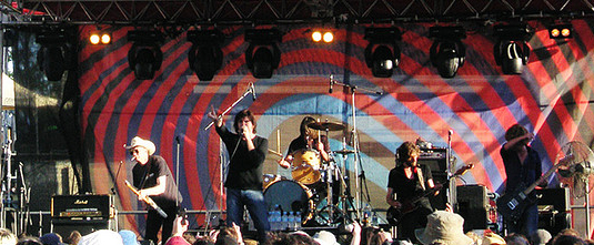 Beasts of Bourbon playing at the Big Day Out, in Perth on 5 December 2013